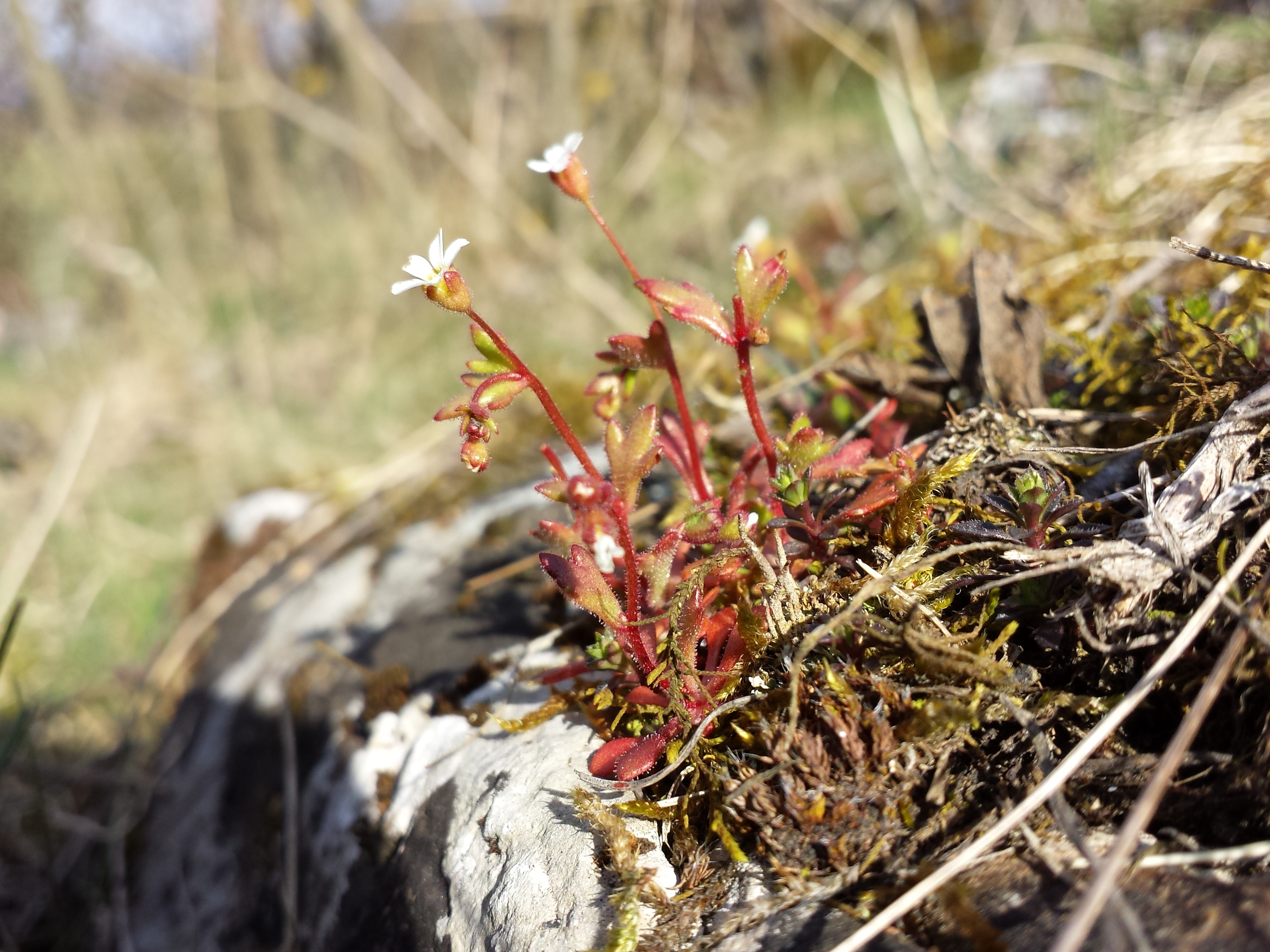 Habitus Taxonym: Saxifraga tridactylites ss Fischer et al. EfÖLS 2008 ISBN 978-3-85474-187-9 Location: Steinbacher Heide-Steinbruch near Oberleis, district Korneuburg, Lower Austria - ca. 430 m a.s.l. Habitat: limestone rock